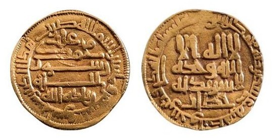 Aghlabid dinar minted in 292 AH / 905 AD during the reign of Ziyadat Allah III (290-296 AH / 903-909 AD), Tunisia. Weight: 4.08g.